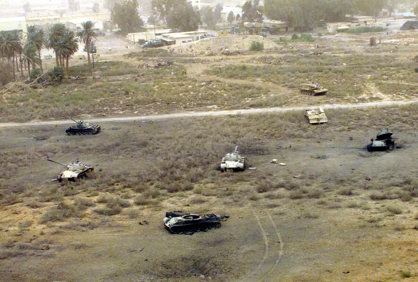 The destroyed remains of Iraqi T-54, T-55, Type 59 or Type 69 Main Battle Tanks (MBT) litter an Iraqi military complex West of Diwaniyah, near Al Qadisiyah, Iraq. Visible on the picture are also two ARVs (the upper one is a Chinese-made Type 653 while the lower one is a Polish-made WZT-2). The tank in the bottom of the picture is a Type 69 as evidenced by the fender-mounted headlights.